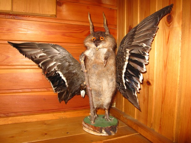 fictional animal